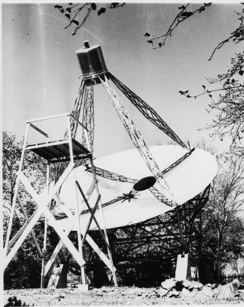 Amateur radio astronomer Grote Reber´s 9 meter (31.4 ft) parabolic radio telescope antenna, which he built in his backyard in Illinois in 1937. This was the second radio telescope ever built (after Karl Jansky's dipole array antenna), the first parabolic radio telescope and the first large parabolic dish, serving as the prototype for large dish radio telescopes built after World War 2. Its construction and the sky survey Reber did with it helped found the field of radio astronomy.